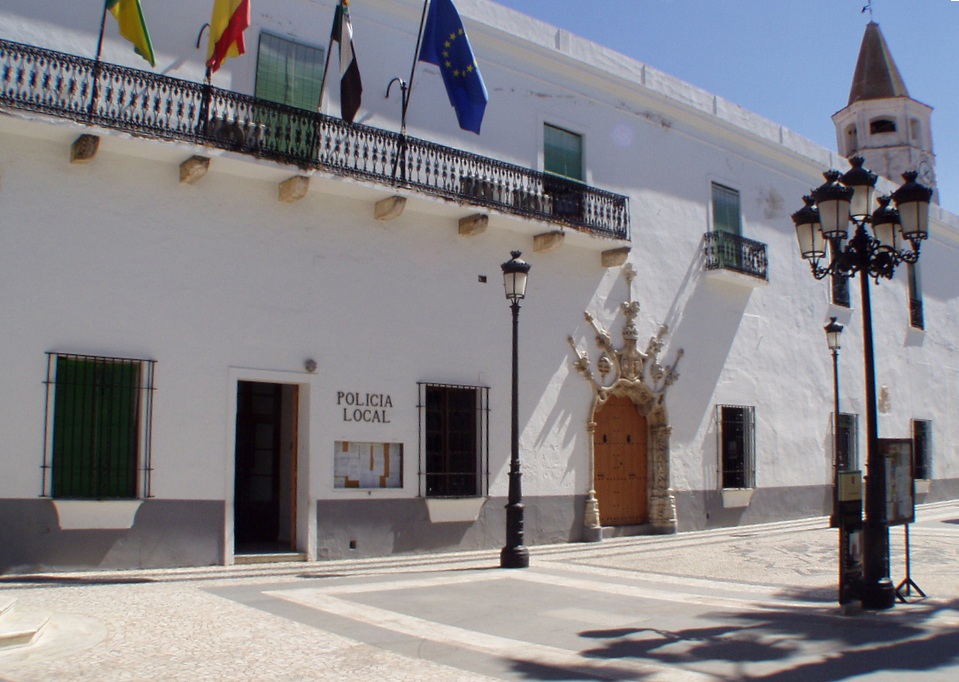 Town hall of Olivenza (Badajoz, Spain), en in the Constitución Square